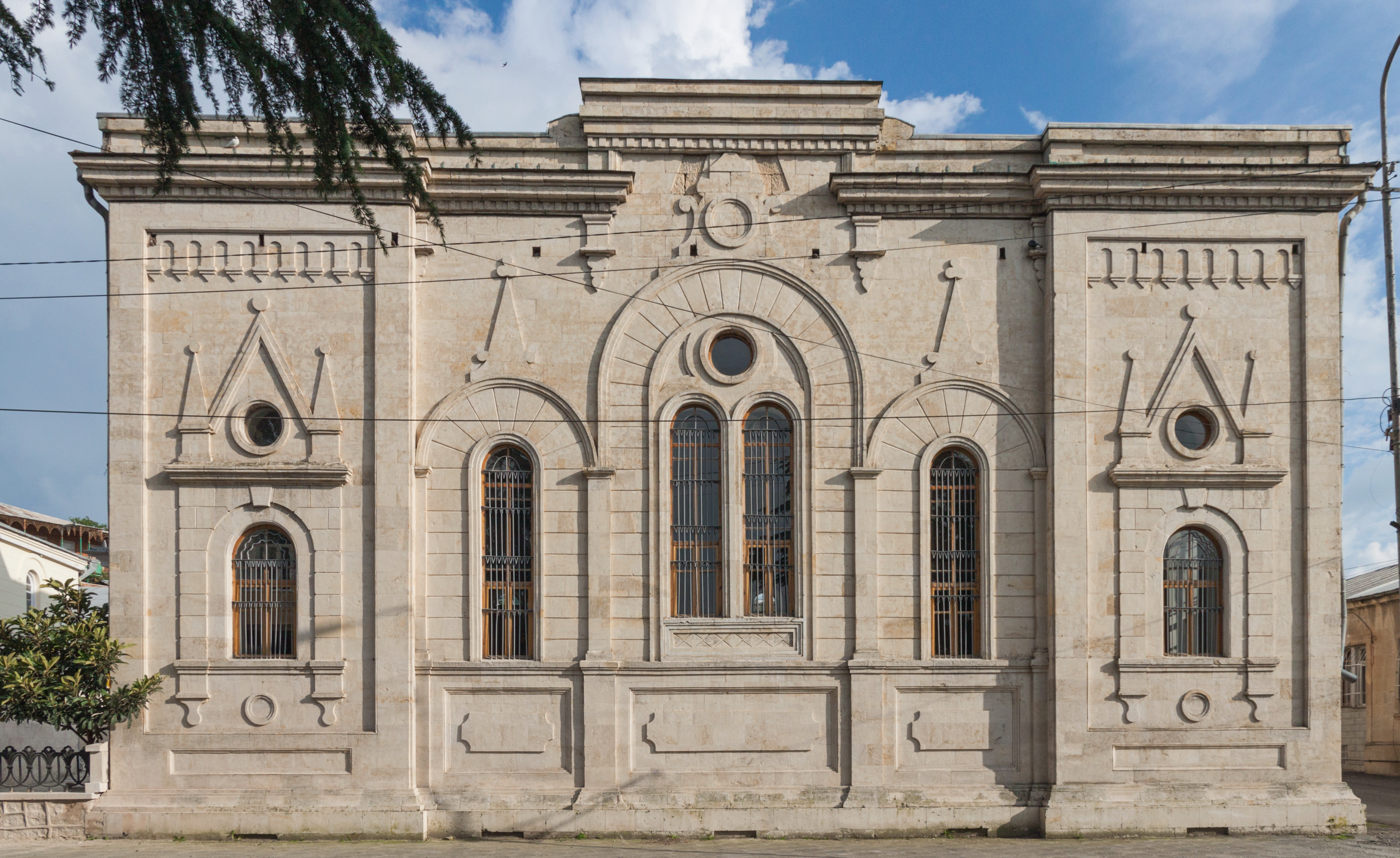 Kutaisi Great Synagogue. Kutaisi, Imereti, Georgia.